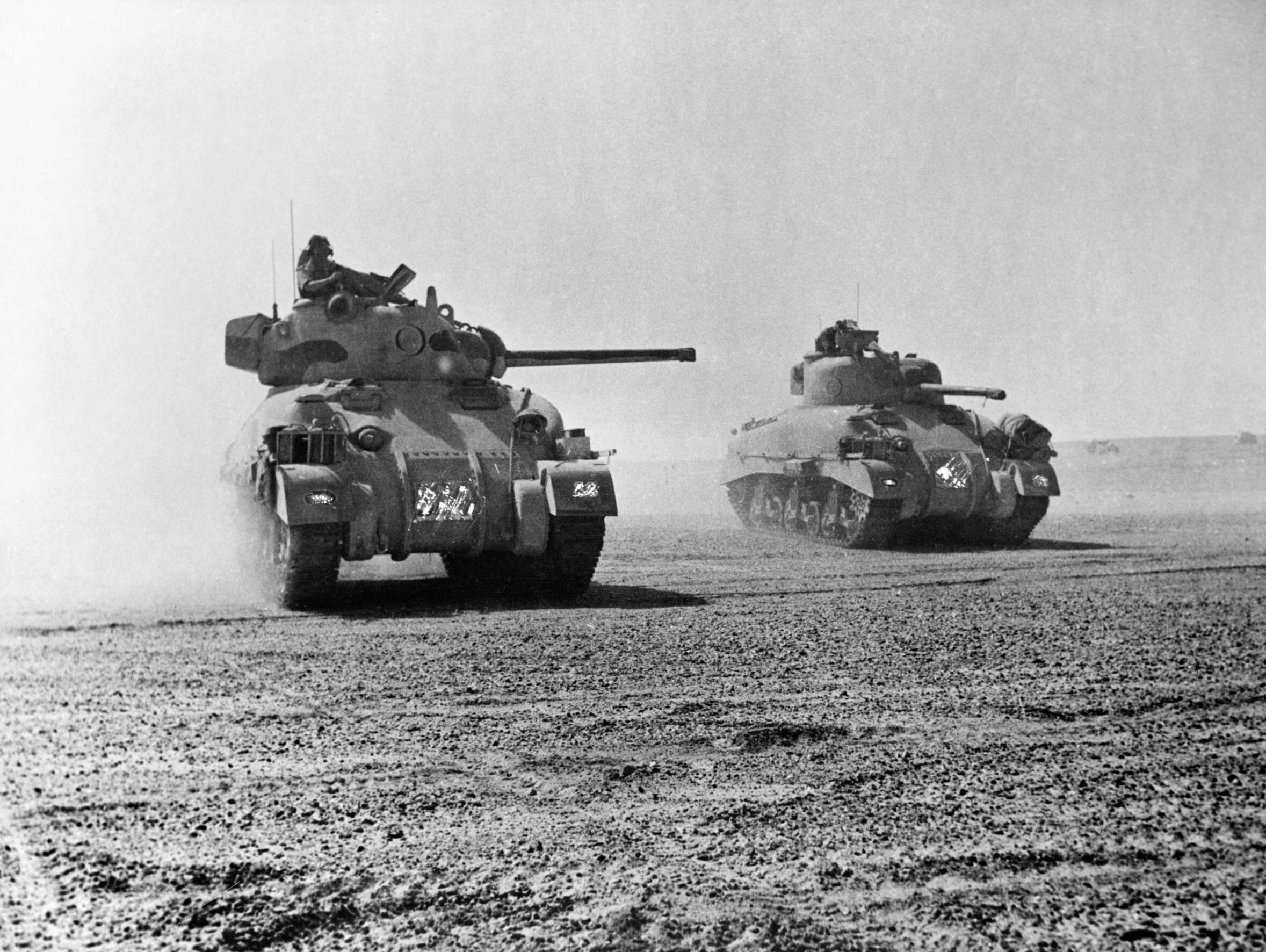 Sherman tanks of 9th Queen's Royal Lancers during the Battle of El Alamein, 5 November 1942. Sherman tanks of 'C' Squadron, 9th Queen's Royal Lancers, 2nd Armoured Brigade, 1st Armoured Division, 5 November 1942.